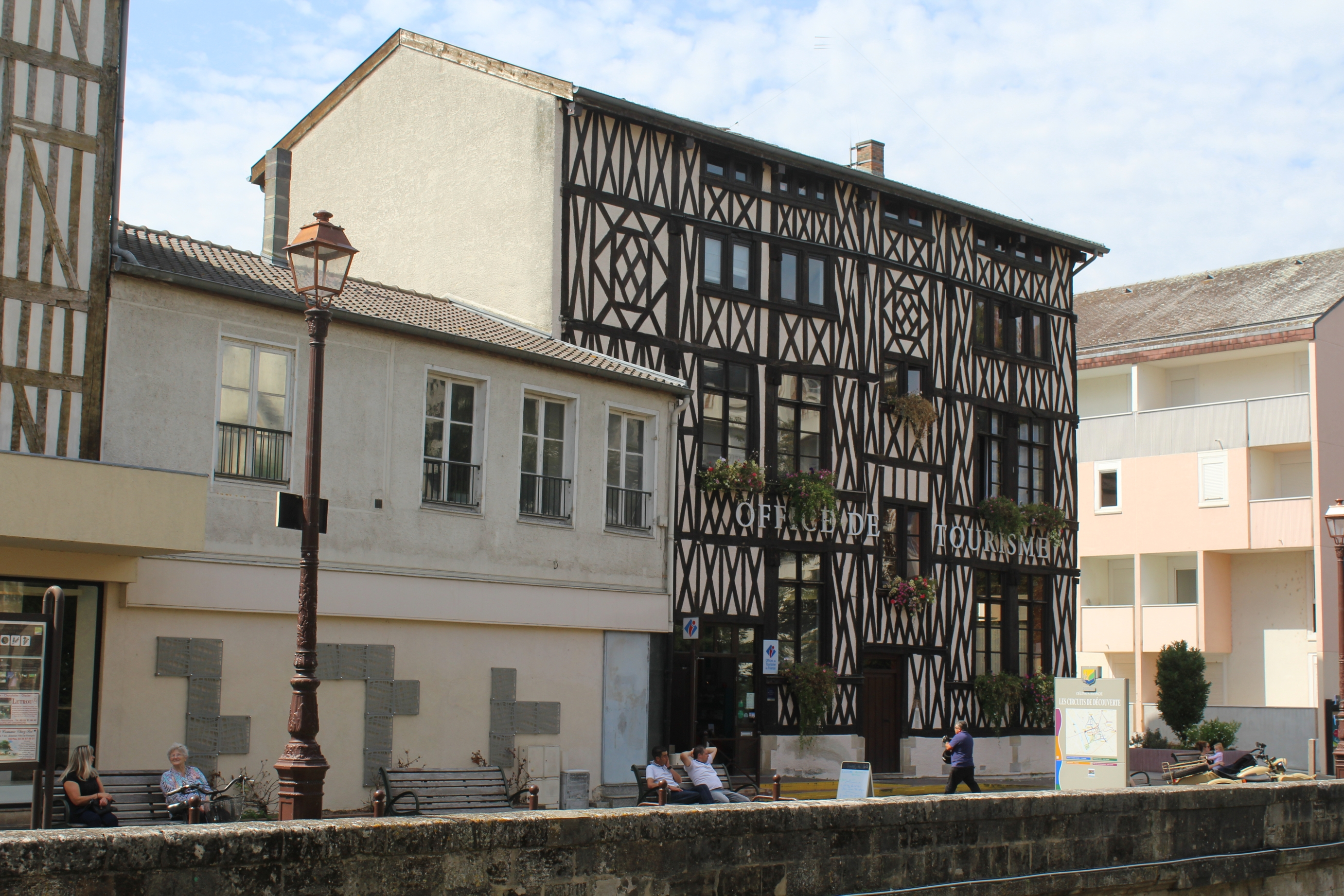 Châlons-en-Champagne, the tourist informations centre